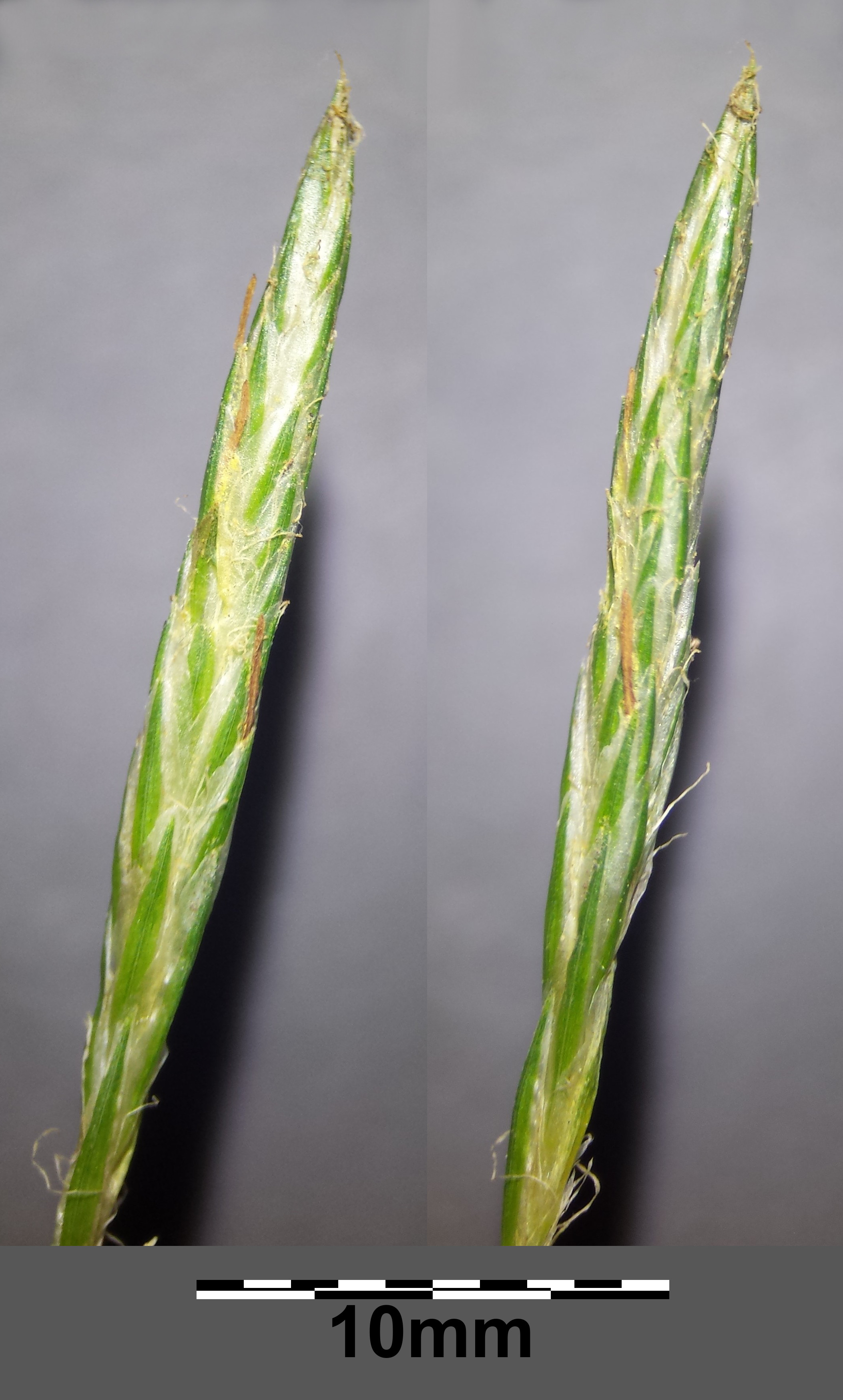 ♂ spike Taxonym: Carex sylvatica ss Fischer et al. EfÖLS 2008 ISBN 978-3-85474-187-9 Location: Michelberg, district Korneuburg, Lower Austria - ca. 330 m a.s.l. Habitat: Carpinion betuli